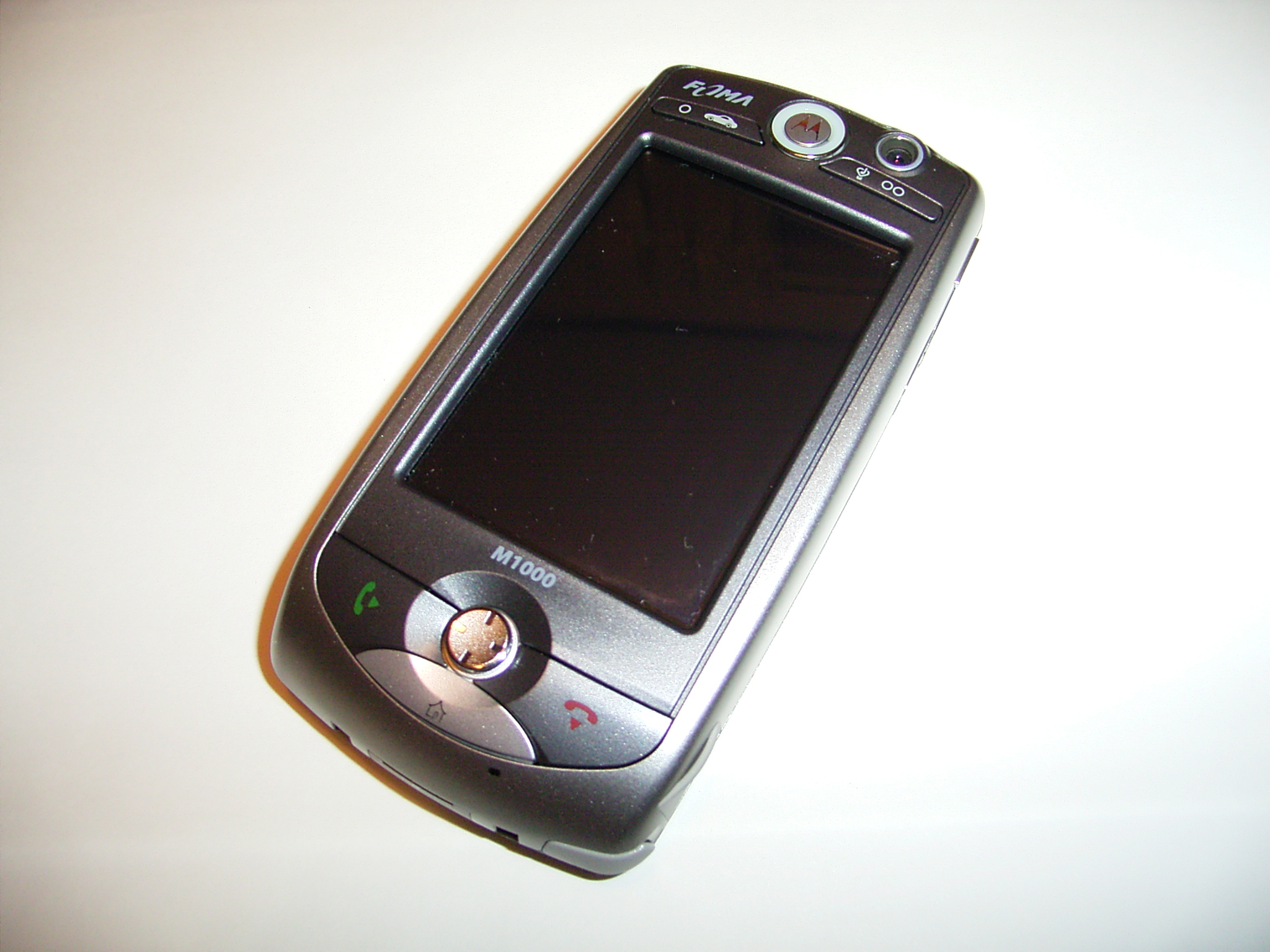 FOMA M1000(M1000)